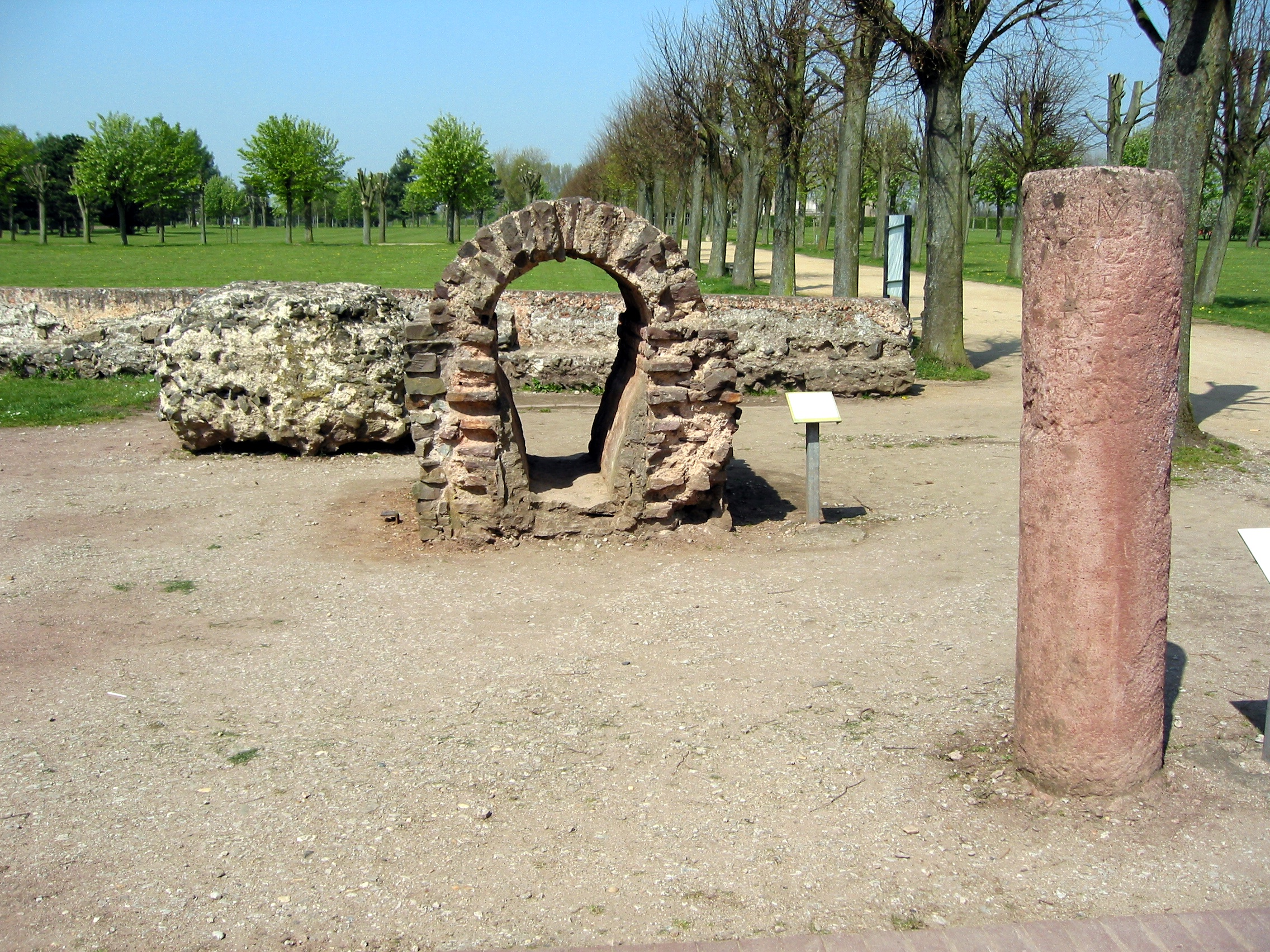 Photo taken April 23, 2005, by Magnus Manske (archaeological park Xanten, Germany, 2005-04-23), with expressed verbal permission. Reconstitution of Aquaeduct part and replica of milestone found at Nettersheim : CIL XVII2, 00556, original preserved at Bonn museum (see Géza Alföldy, Epigraphisches aus dem Rheinland II, in: Epigraphische Studien 4, 1967, S. 34 f. Nr. 2 ; Taf. 2, and image) : Imp(eratori) Caes(ari) / G(aio!) Quint[o] / Messio / Decio / Traiano / Invicto / Pi[o Fel]ici / [Aug(usto).